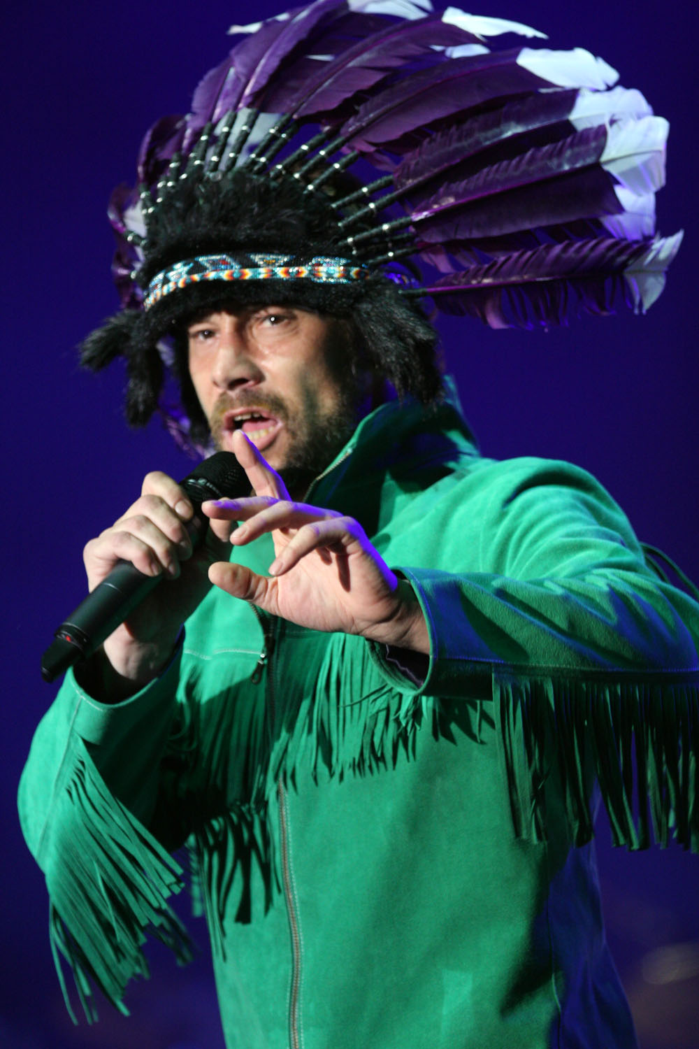 Sydney’s biggest New Year’s Eve party 2011 welcoming in 2012: Jamiroquai on stage